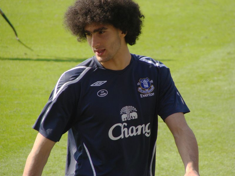 Marouane Fellaini of Everton, before a match against Fulham FC